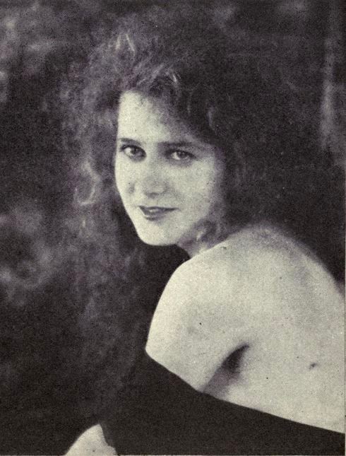 Actress Ruth Renick on page 319 of the 1921 Motion Picture Studio Directory and Trade Annual.